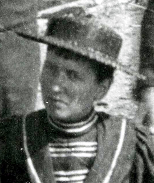 Nachtrieb, Henry Francis, 1859-1900? Conway MacMillan and Josephine Tilden of the University of Minnesota